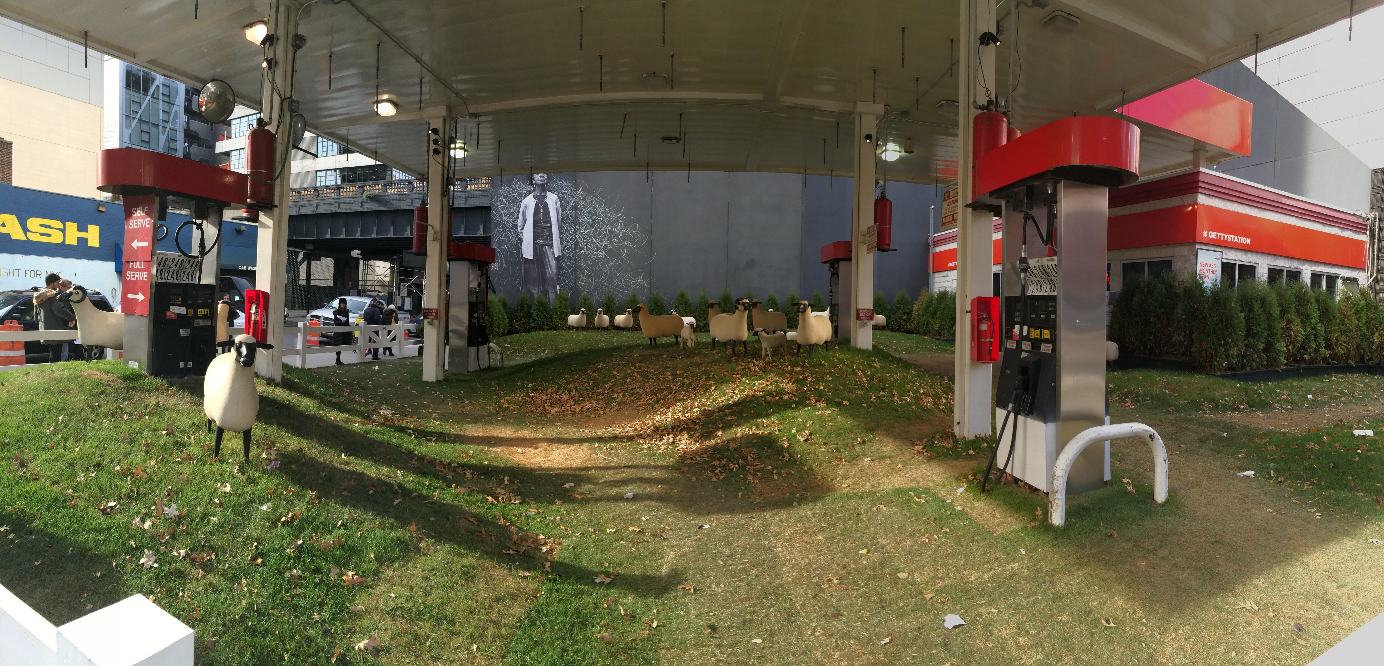 Image of Getty Station in Manhattan.